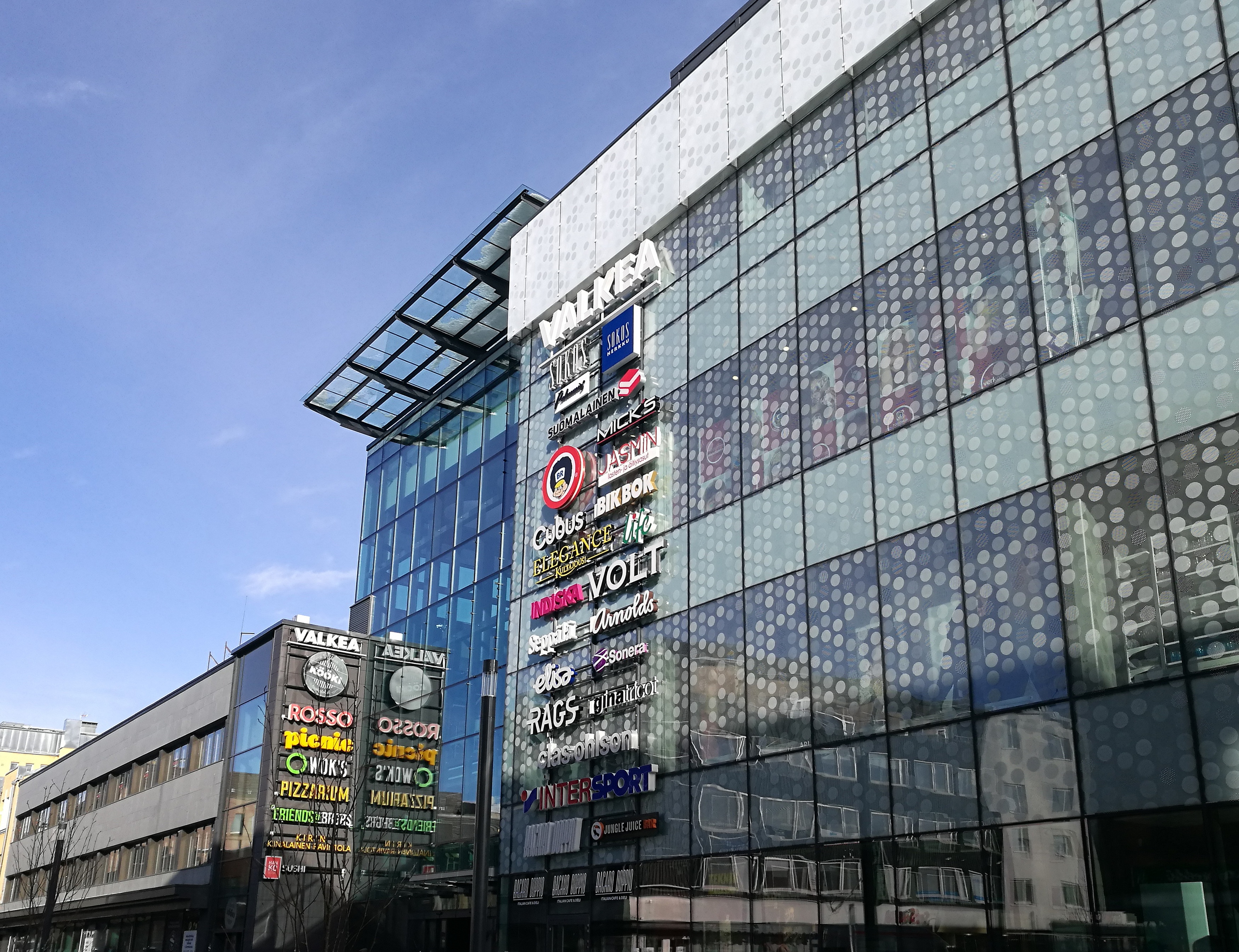 The Valkea shoppng centre in Oulu.